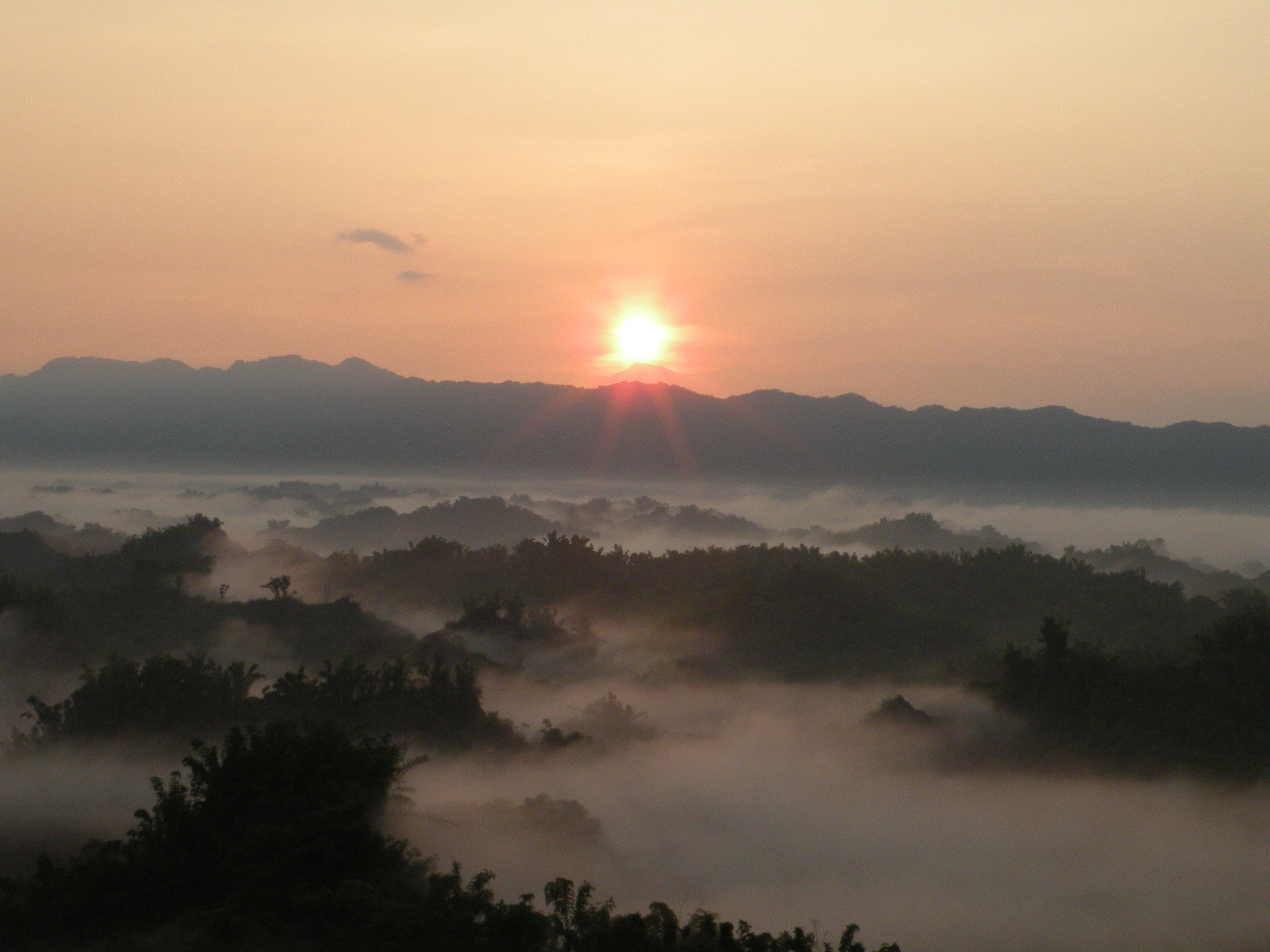 Surise in Erliao(二寮), Tainan, Taiwan